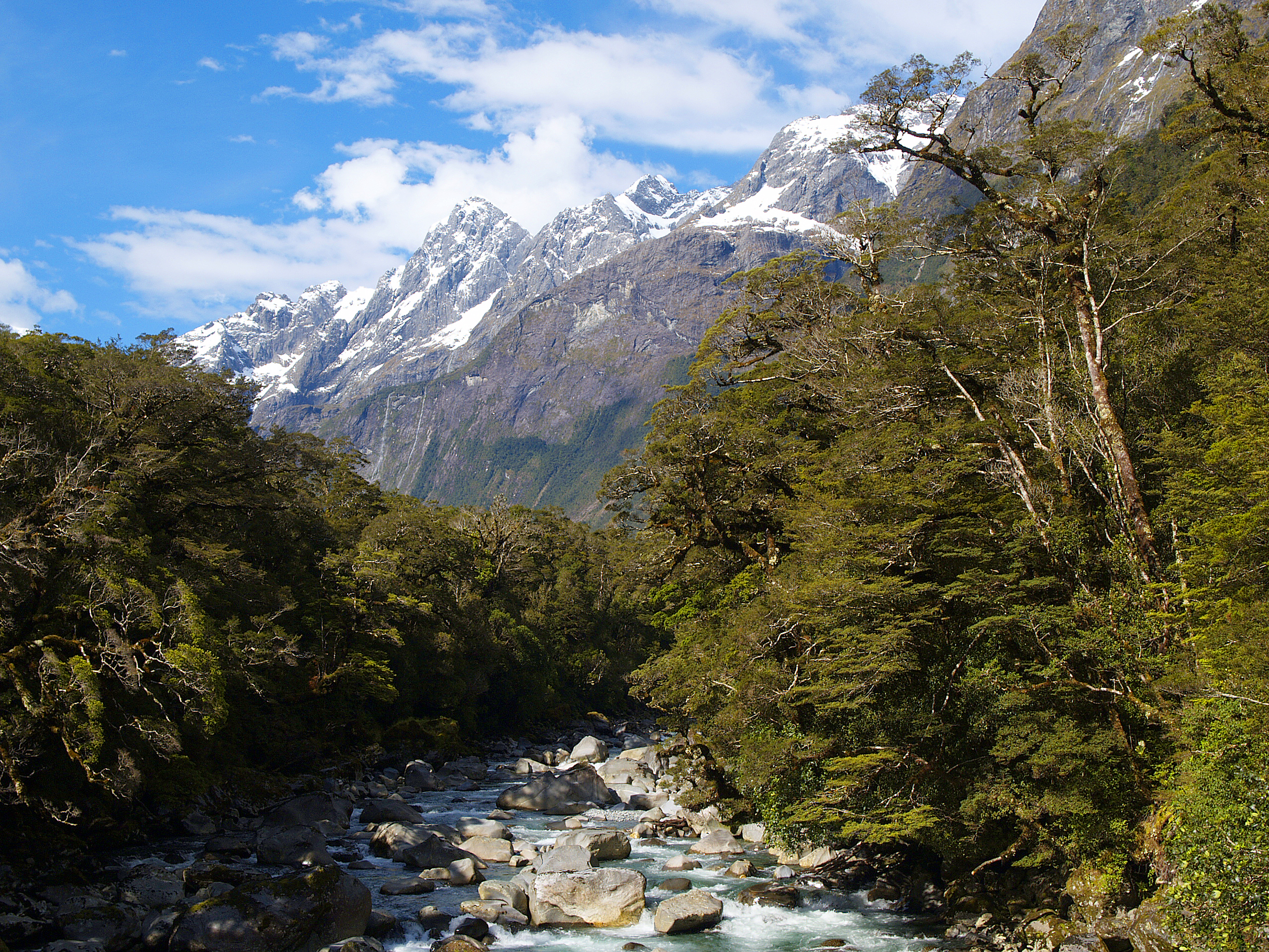 Mount Tūkoko 2723 m, Fiordland, South Island, New Zealand